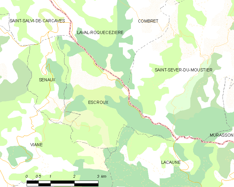 Map commune FR insee code 81085.png - Escroux